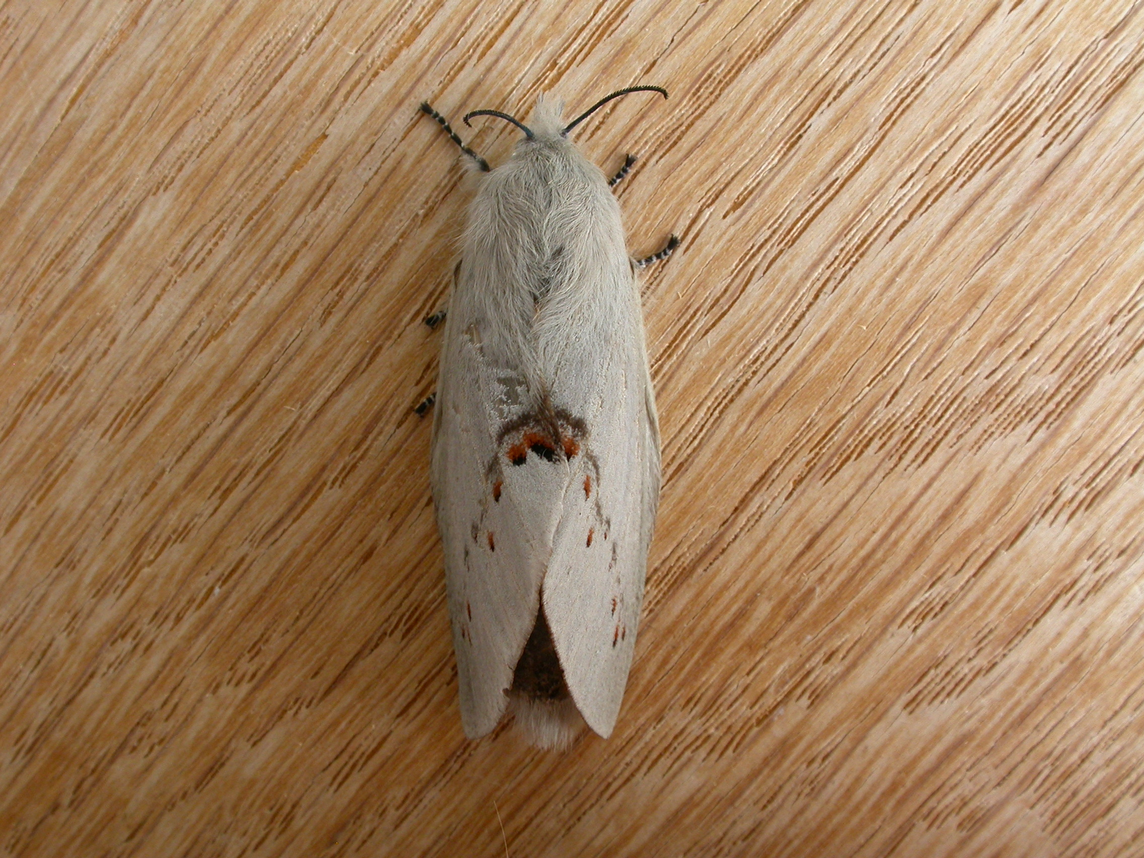 Pinara metaphaea (Walker, 1862), female, to MV light, Blackheath, NSW, 23/24 January 2011 Determination based on wing shape, forewing colouration and light grey tuft at tip of abdomen.